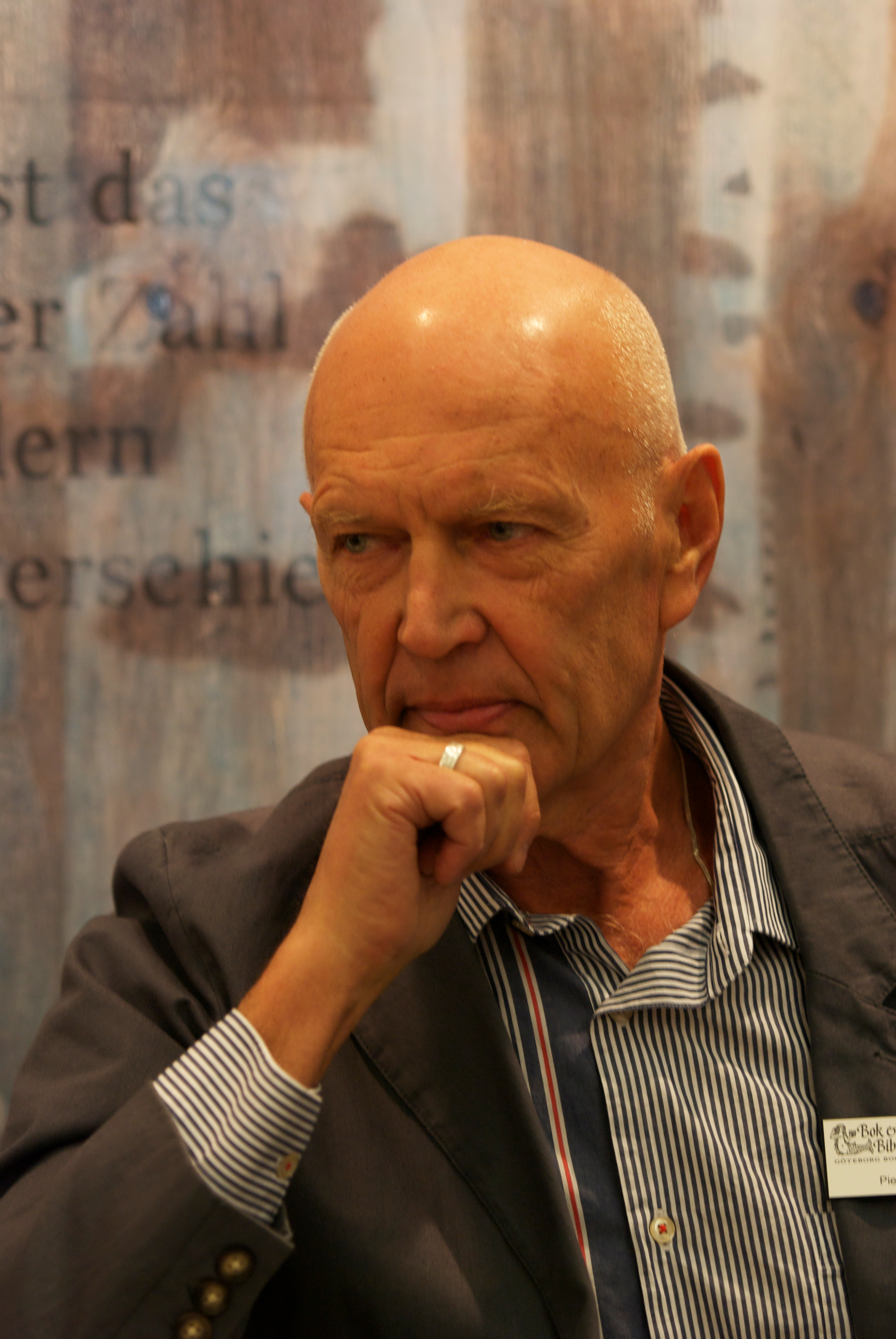 Pierre Schori at Göteborg Book Fair 2011.